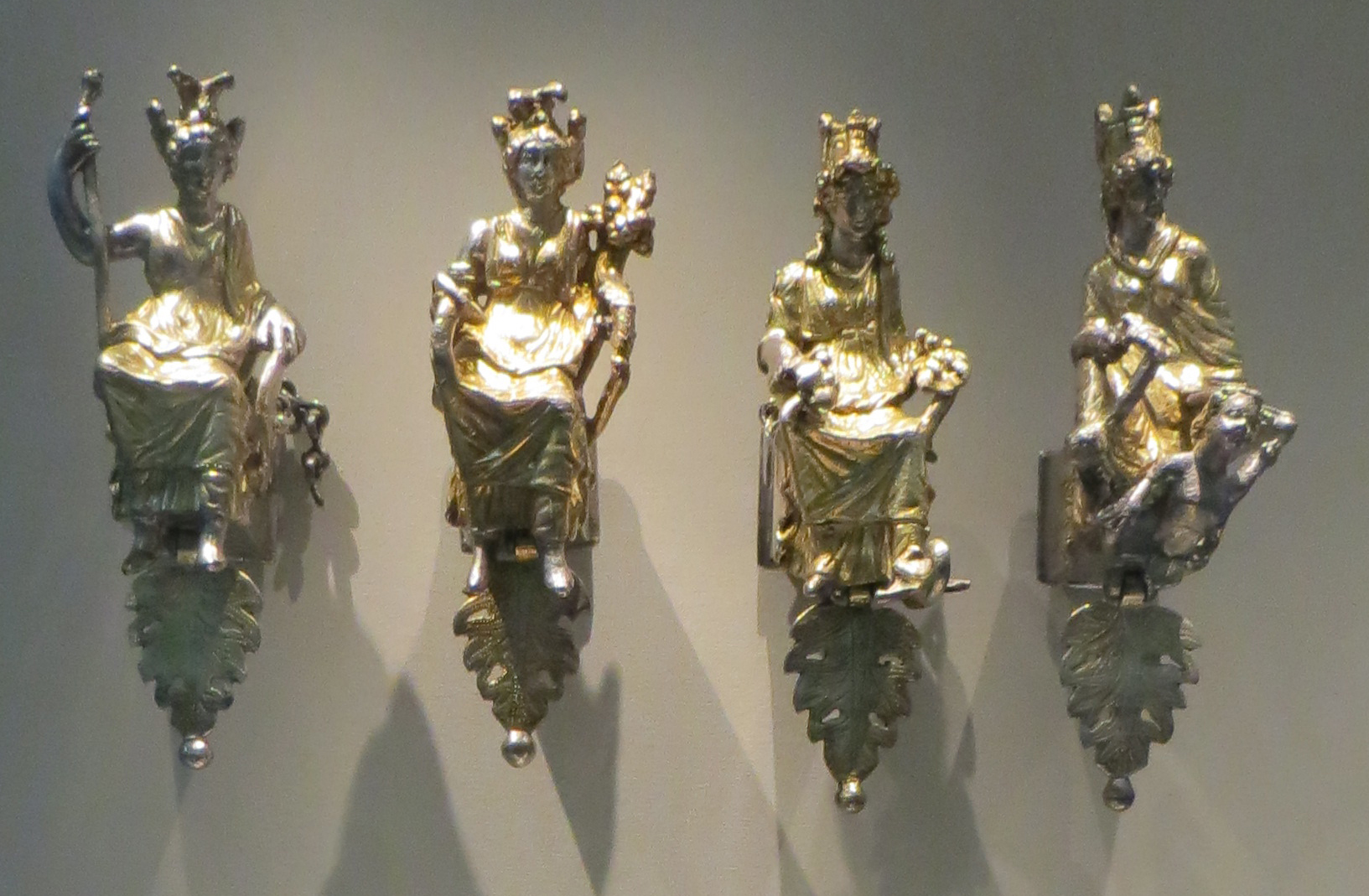 Cropped version of File:Esquiline Treasure (5).JPG